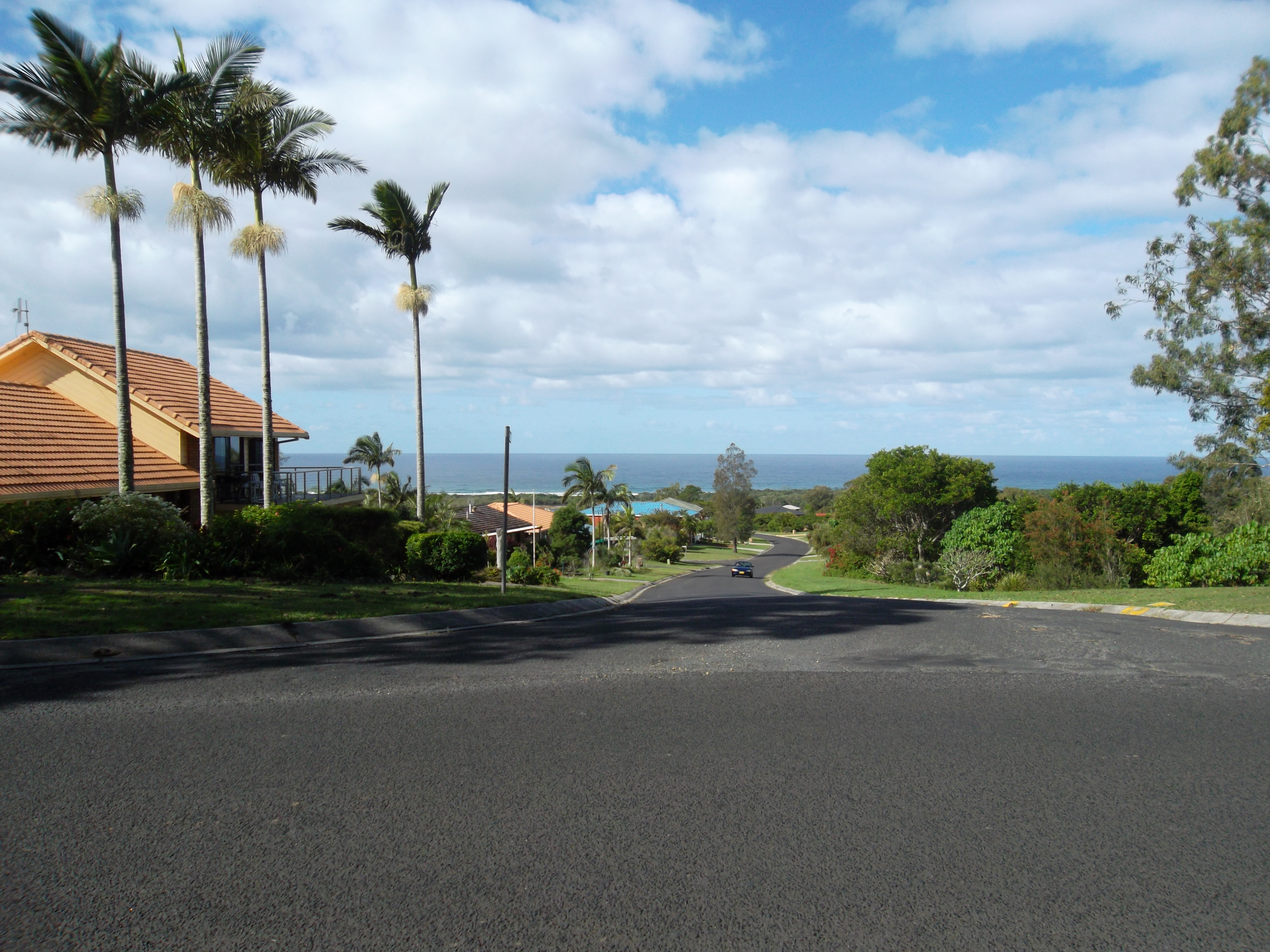 Looking East down Yallakool Drive to the sea, from the corner of Yallakool Drive and Warrambool Road, Ocean Shores, NSW.